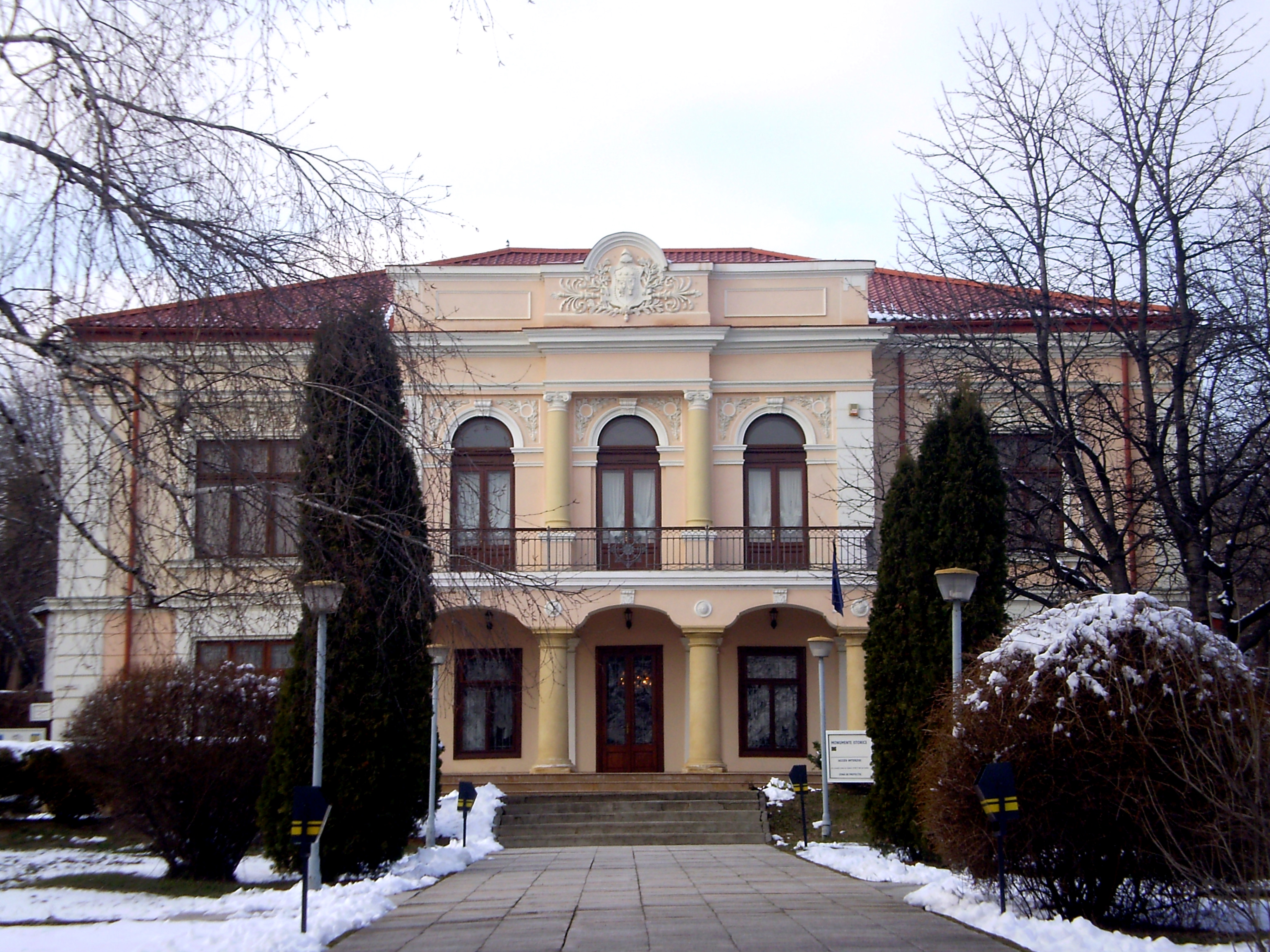 Iaşi , Romanian Literature Museum (House Pogor) , Iaşi , Romania